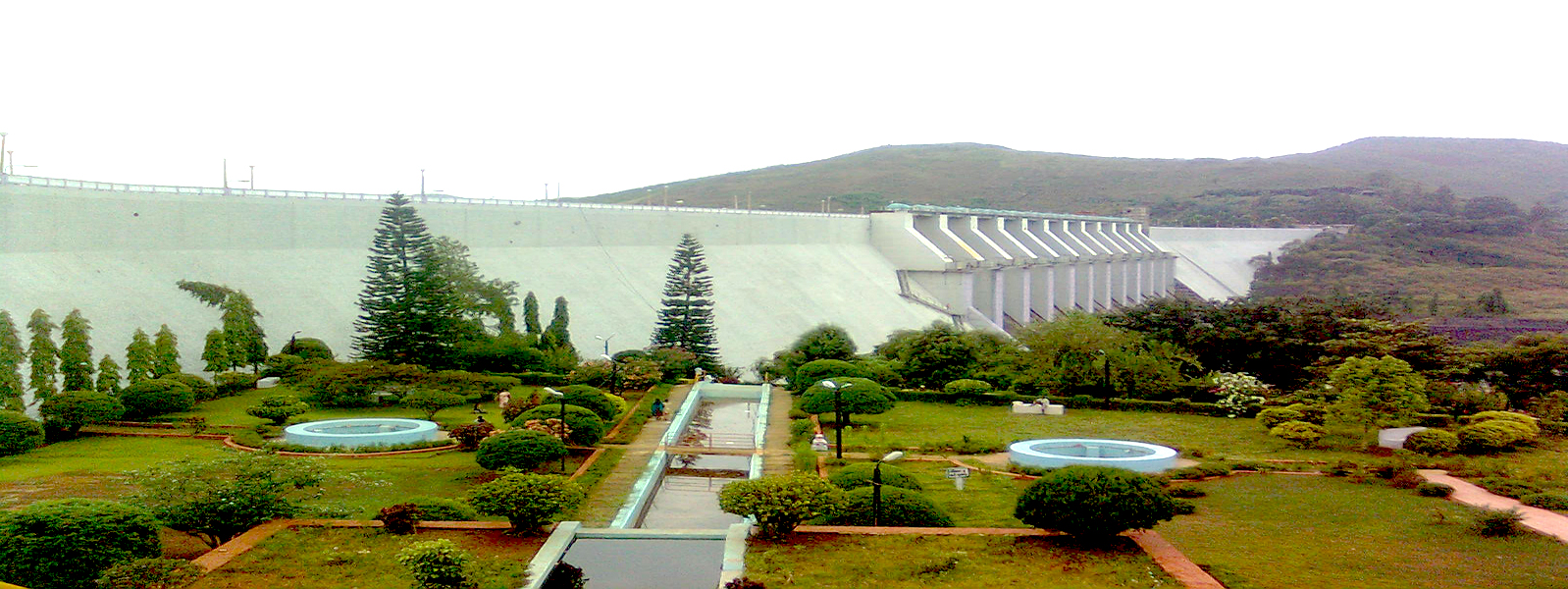 Panoramic view of Kolab dam located in Koraput district in Odisha in 2011